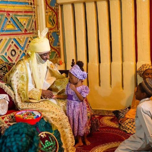 This is an image of "African people at work" from Nigeria